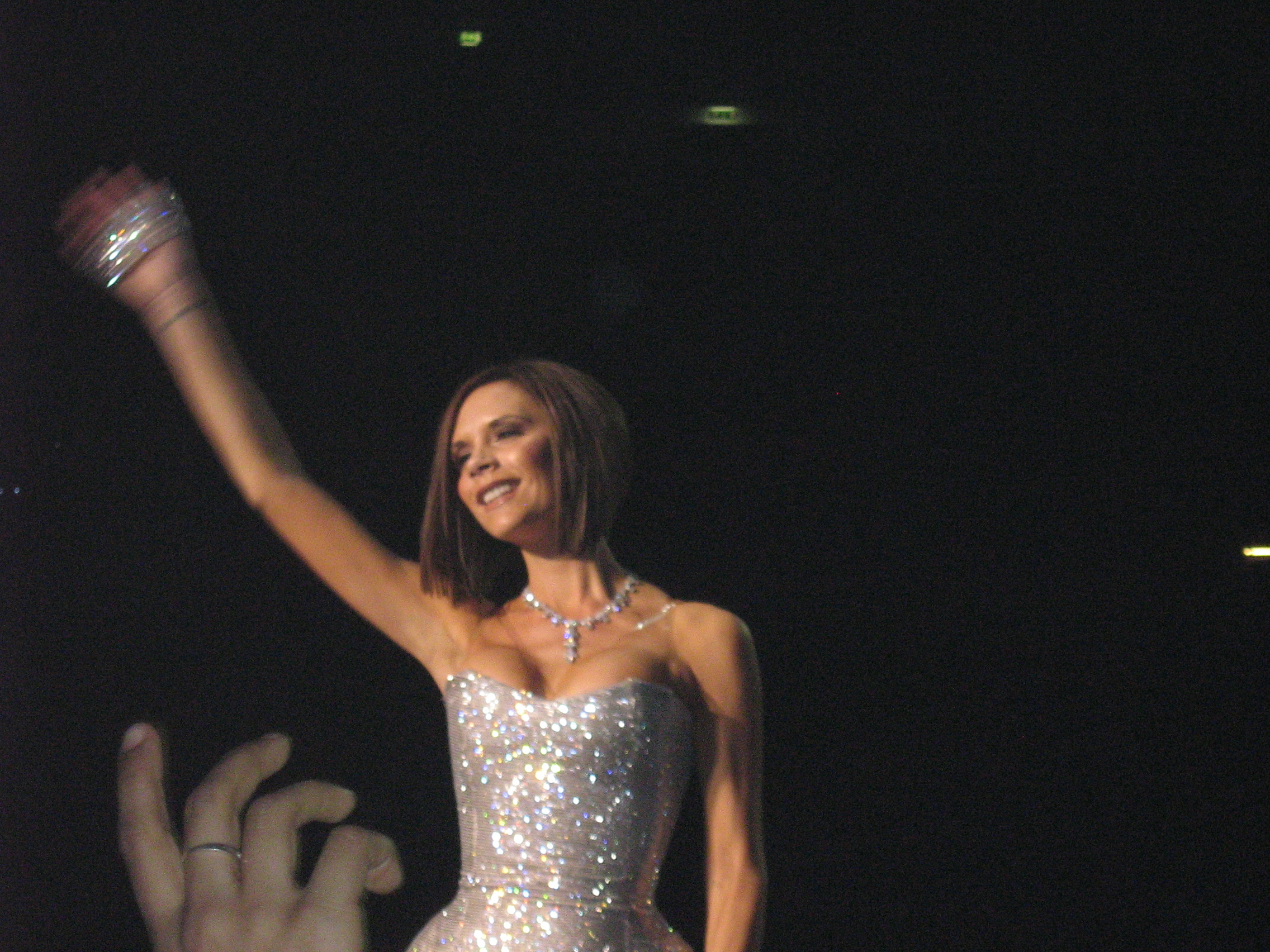 Victoria Beckham in Cologne